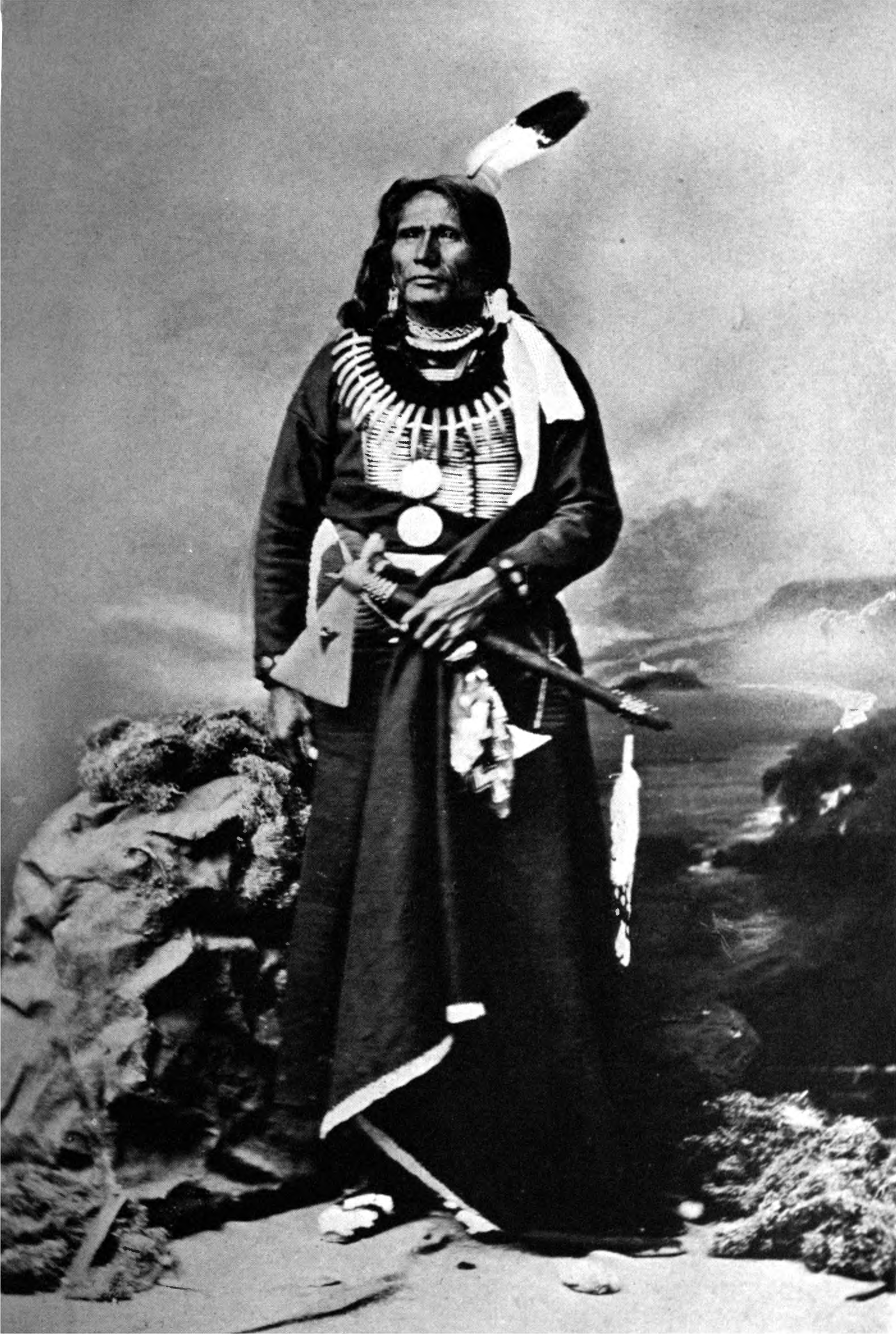 Illustration from The Indian Dispossessed by Seth K. Humphrey, 1906.